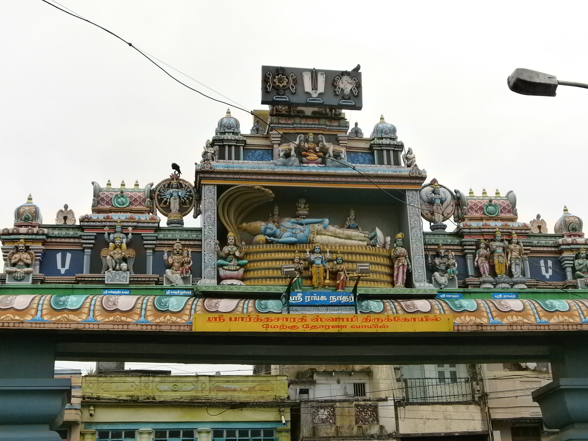 Parthasarathy Temple Triplicane Chennai photo - 1